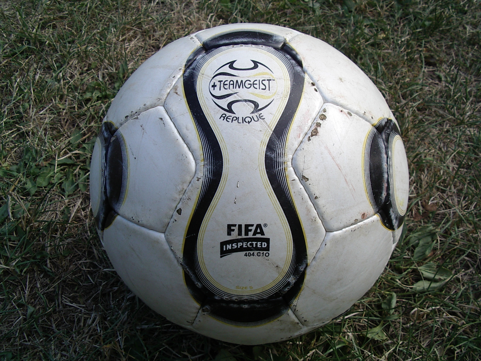 An official replica of Teamgeist, the World Cup 2006 official ball. Author: PeepP